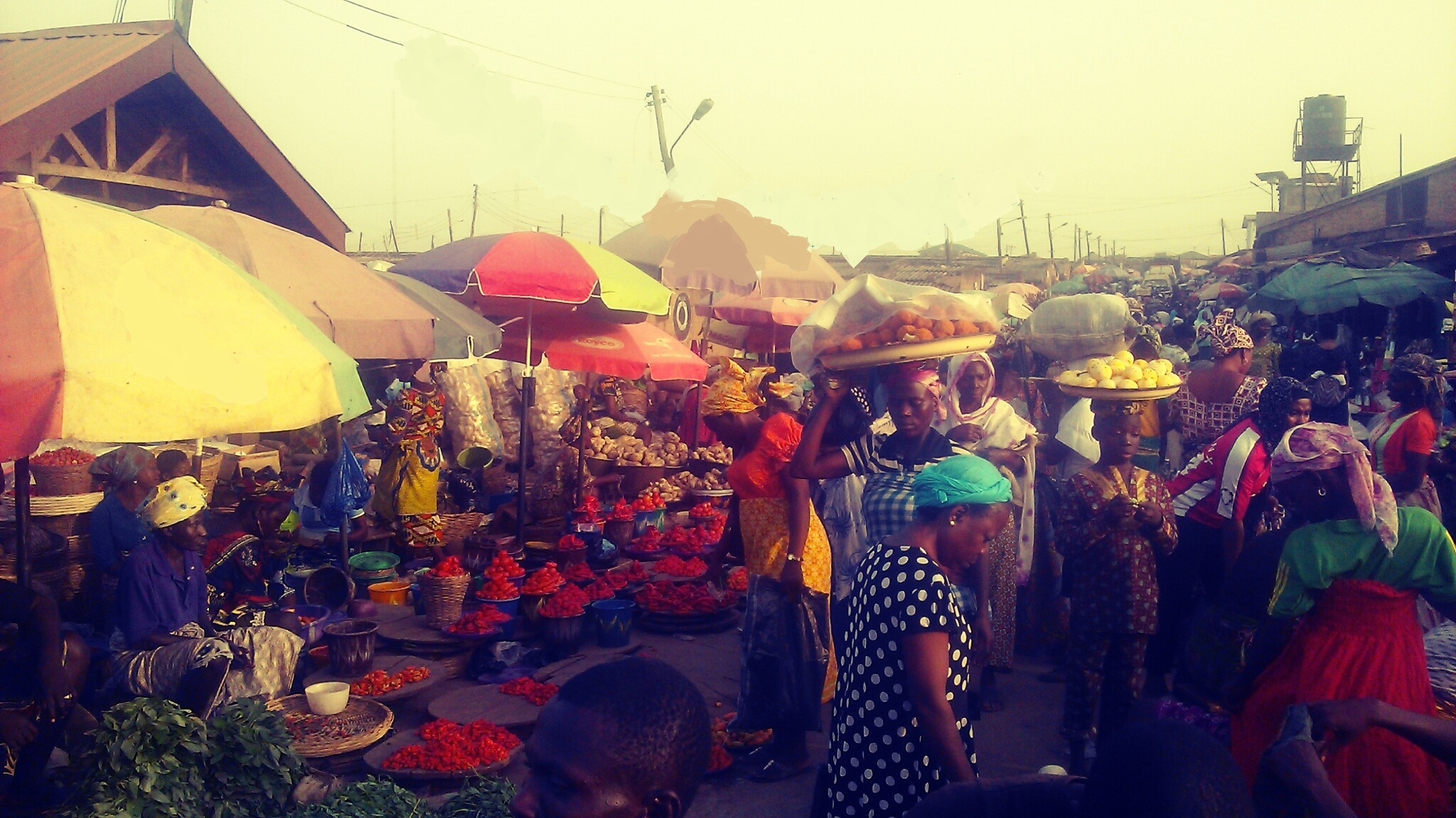 This is an image of "African people at work" from Nigeria